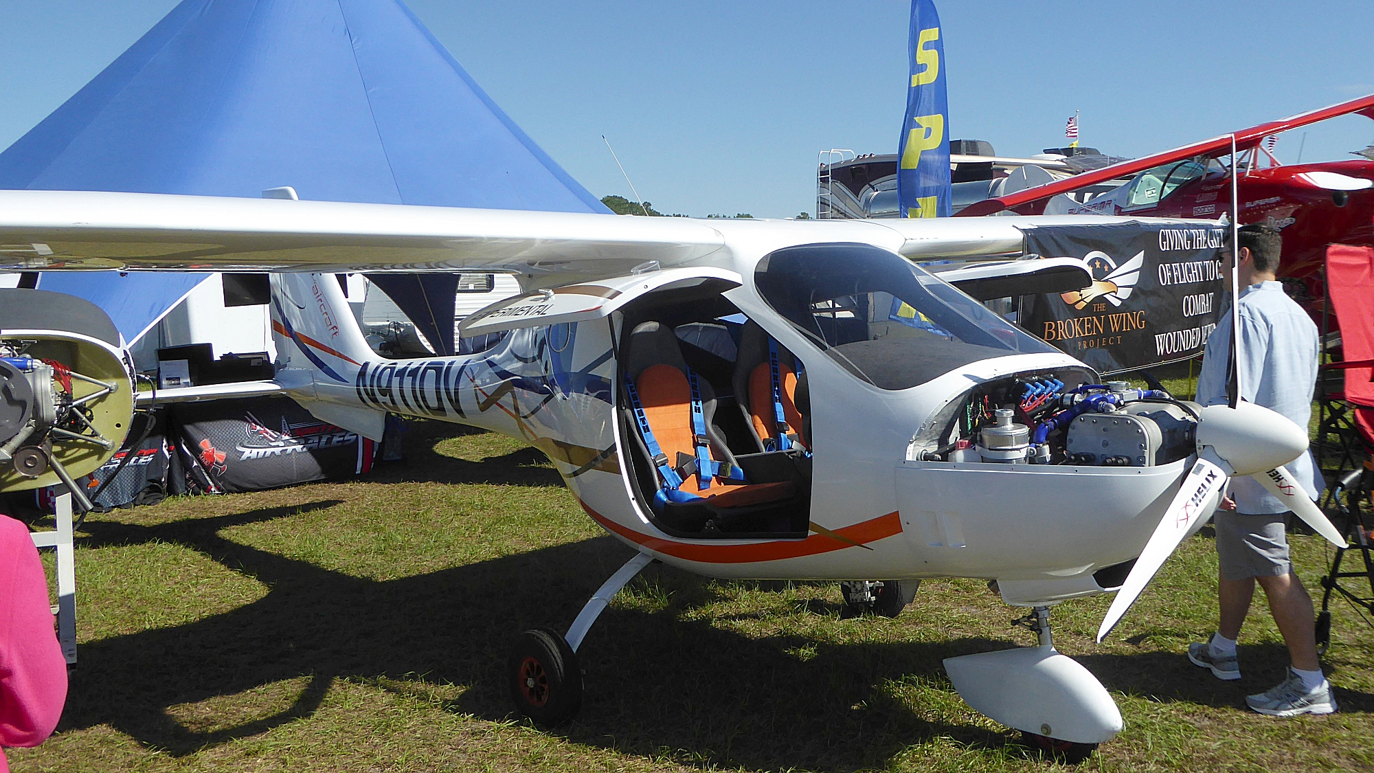 BOT SC07 Speed Cruiser N911DV at Lakeland Linder Regional Airport